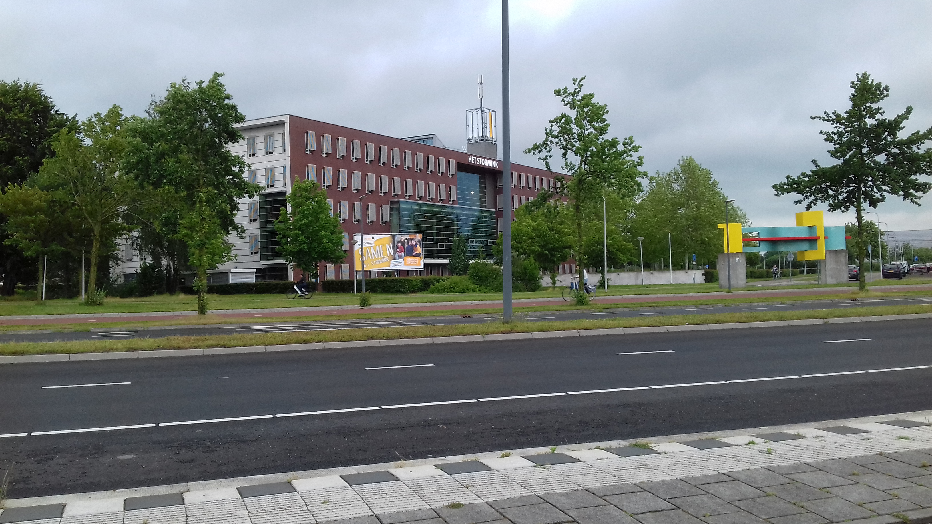 School building of the Etty Hillesum Lyceum location Het Stormink in Deventer, The Netherlands